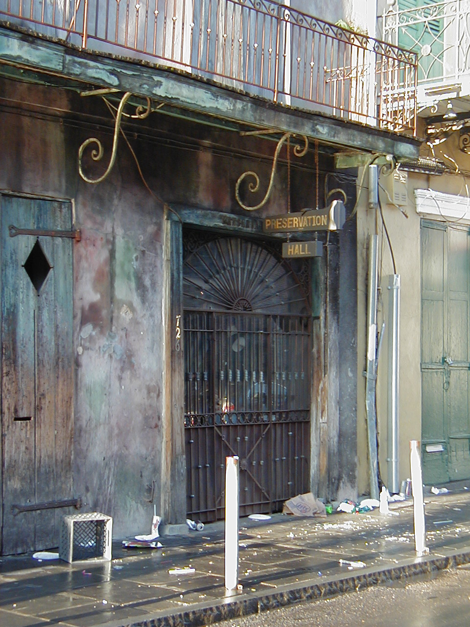 Preservation Hall, New Orleans, in January, 2003.